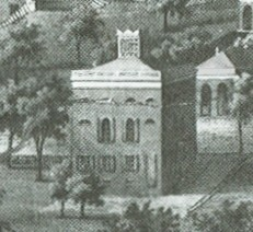 University of Virginia: Anatomical Theatre. Lithograph from 1856 (i.e. before the fire in 1886). Description of the lithograph from University of Virginia Visual History Collection: Title: View of the University of Virginia, Charlottesville & Monticello, taken from Lewis Mountain (...) Comments: University of Virginia, from the west, showing Rotunda, Annex, Lawn, Ranges, and Anatomical Theatre. Published by Casimir Bohn, Washington, D.C. and Richmond, VA, labeled, lower left, "Drawn from Nature & Printed in Colors by E. Sachse & Co." labeled, lower right, "Sun Iron Building, Baltimore Md." 13 b&w photographs Image Filename: prints00017 Accession Number: MSS 2535 Copy Negative Number: ps1946